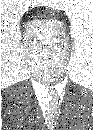 Takashi Go, a director of Japan Amateur Athletic Association.